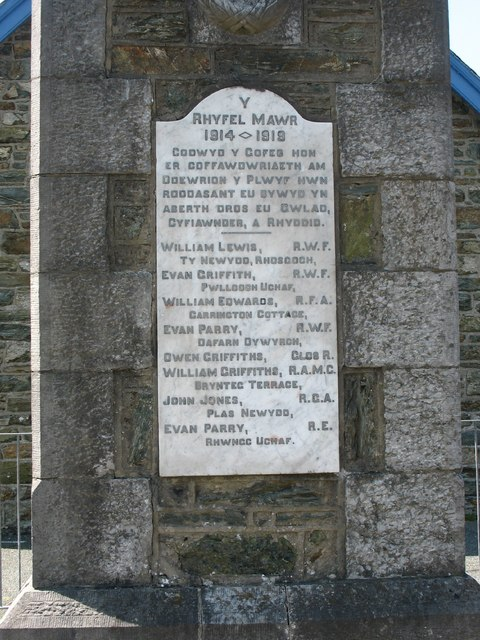 First World War Memorial at Rhosybol The Inscription reads "Great War 1914-1918. This memorial was erected to remember the heroes of this parish who gave their lives in sacrifice for their country, justice and freedom".